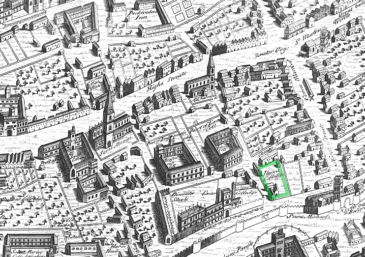 Part of Ralph Agas's map of Oxford (1578). North is at the bottom. Jesus College, Oxford is marked in green